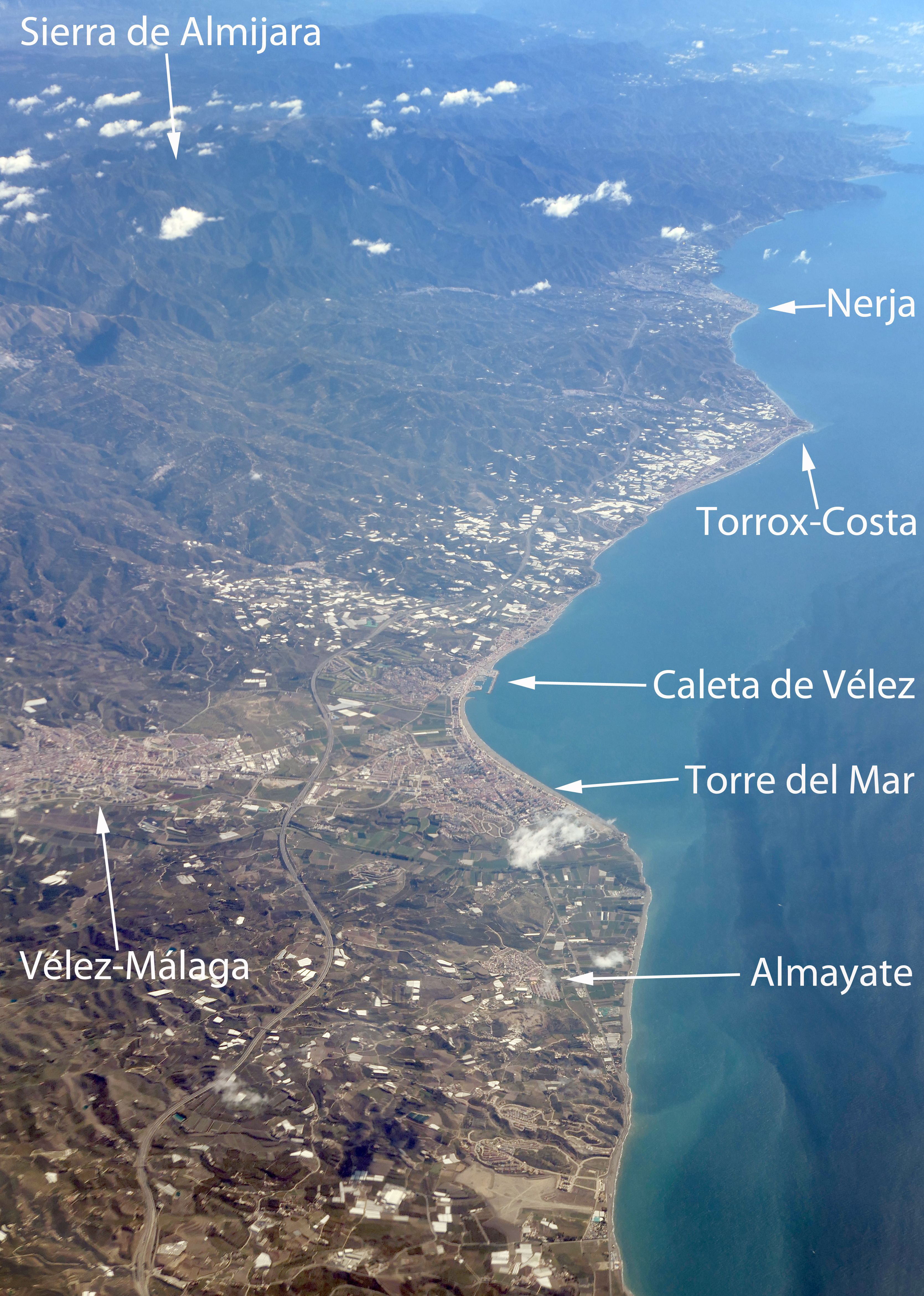 An aerial photo of the coast near Vélez-Malaga in Spain.